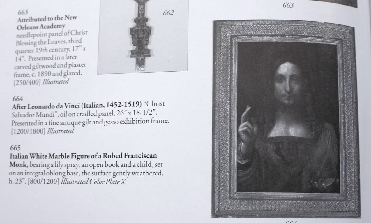 Detail of page from the Charles Gallery auction house (branch of New Orleans Auction Gallery) in New Orleans, 9–10 April 2005, showing Salvator Mundi by Leonardo da Vinci (listed as "After"), No. 664, estimate $1,200 – $1,800. The painting sold for just under $10,000 USD